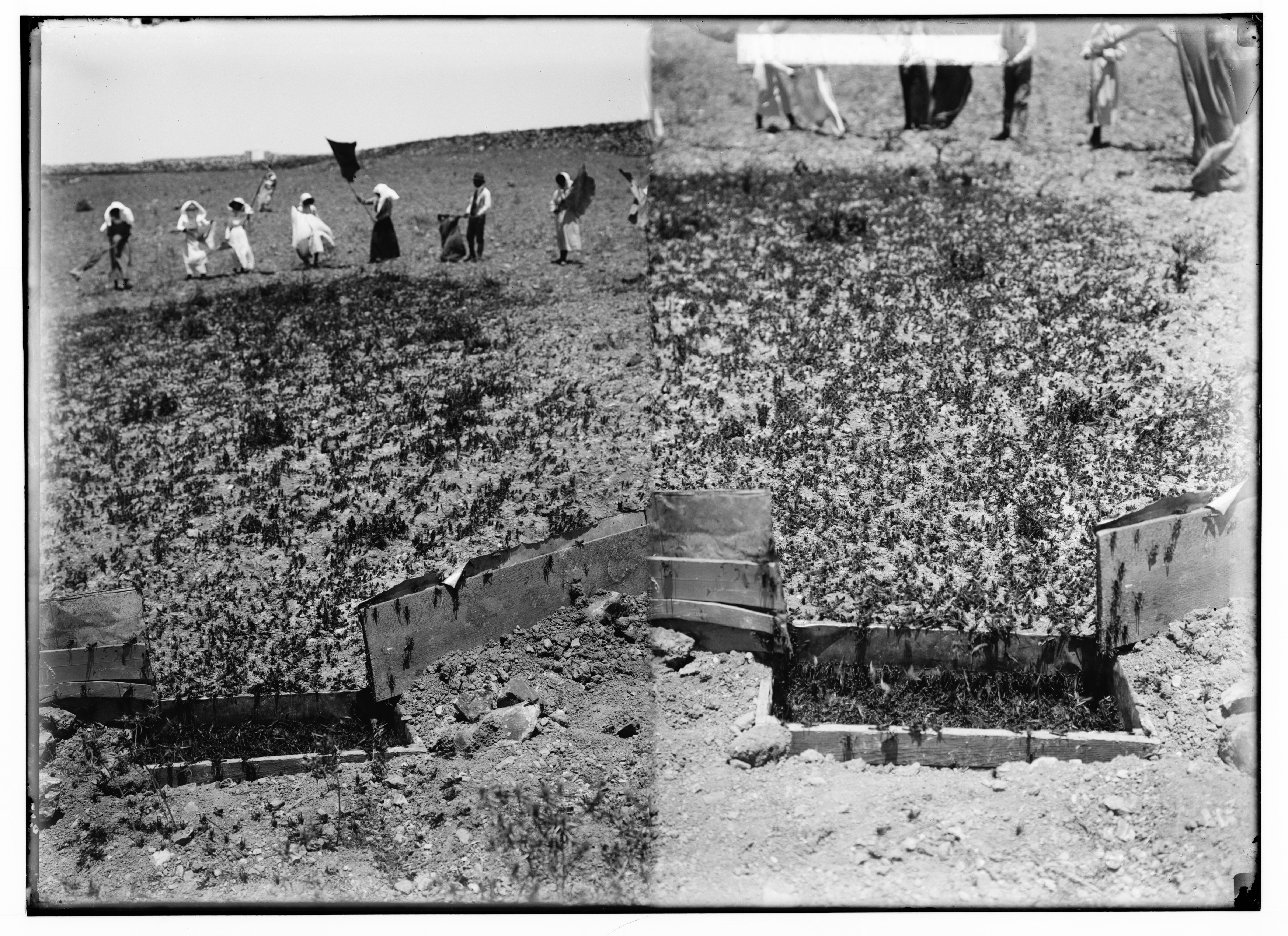 Title: The terrible plague of locusts in Palestine, March-June 1915. Locusts entering the trap. Abstract/medium: G. Eric and Edith Matson Photograph Collection Physical description: 1 negative